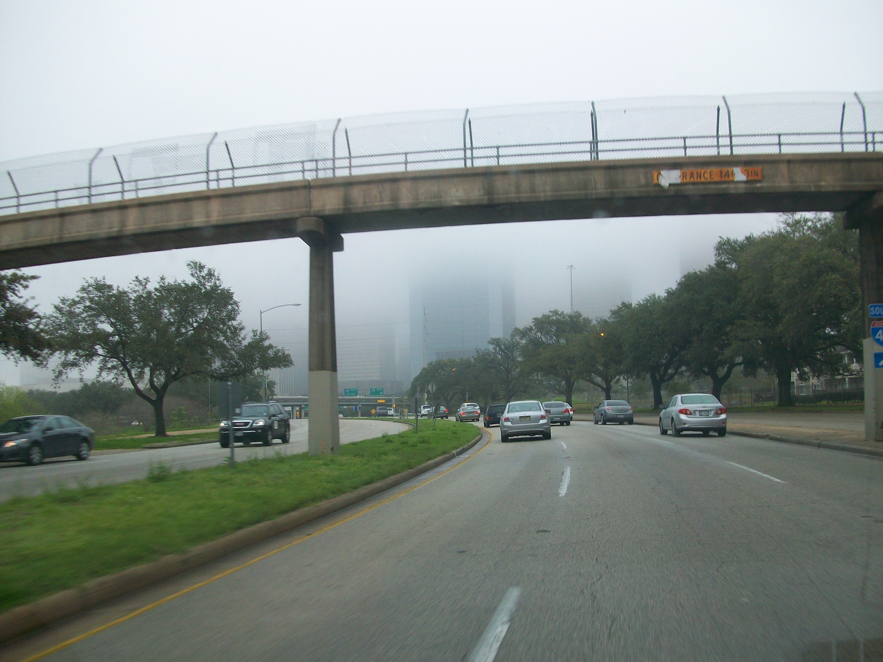 Eastbound Allen Parkway, Houston, TX